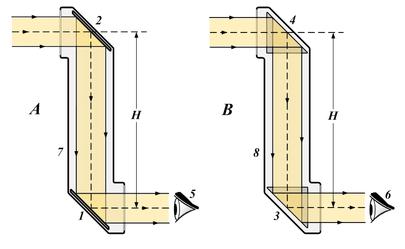 Without magnification periscopes ray diagram. A - Periscope using two plane mirrors. B - Periscope using two right–angled prisms. 1 - 2 - Plane mirrors. 3 - 4 - Right–angled prisms. 5 - 6 - Observer eye. 7 - 8 - Periscope tube. H - Periscope optical height.